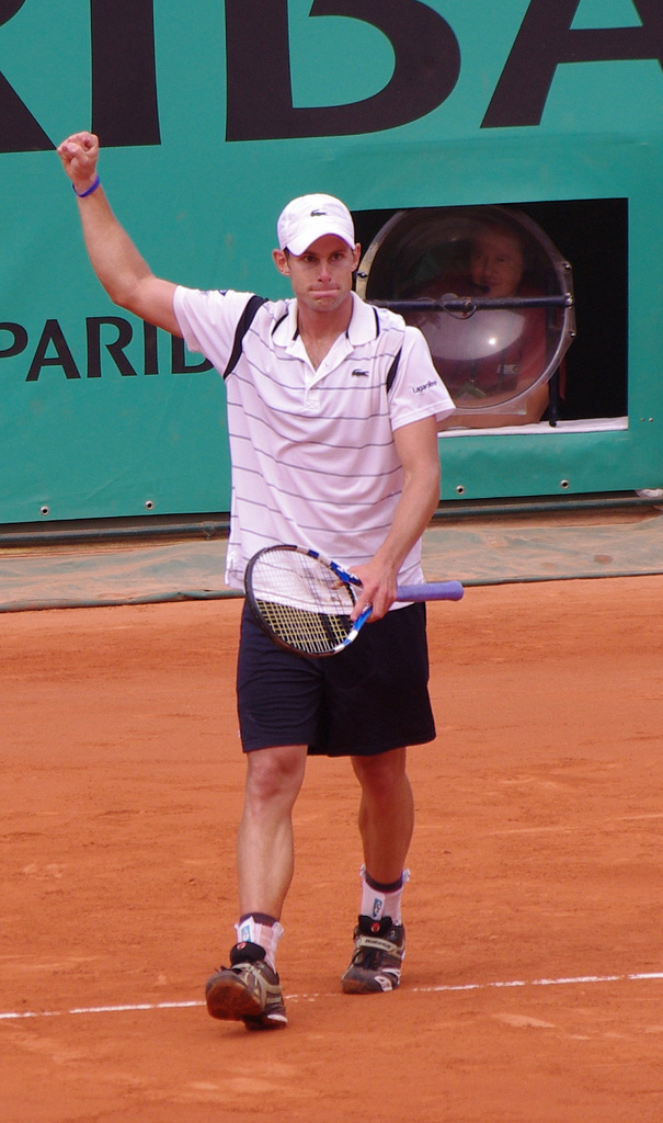 A Rod Celebrates winning a match